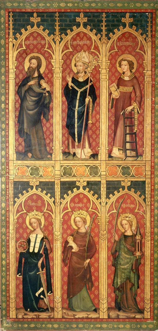 Altar of the Poor Clares closed right wing